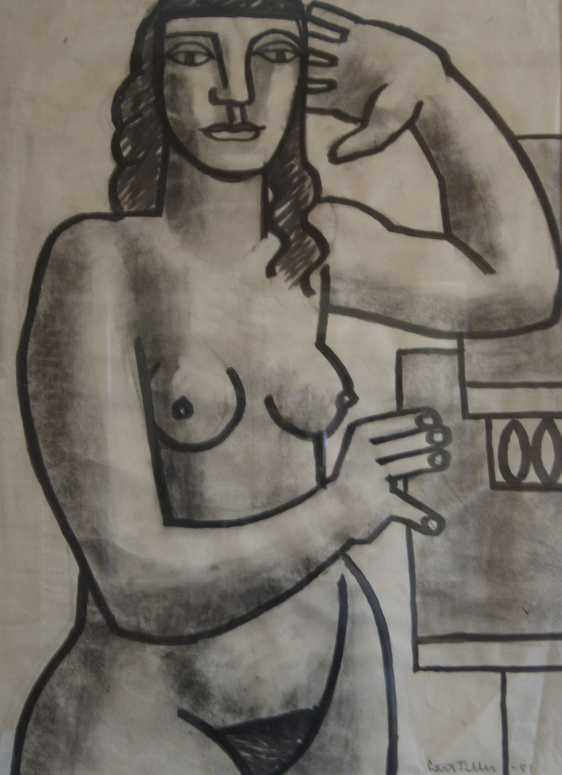 Charcoal drawing (size: 60x45 cm) by the Norwegian artist Lars Tiller